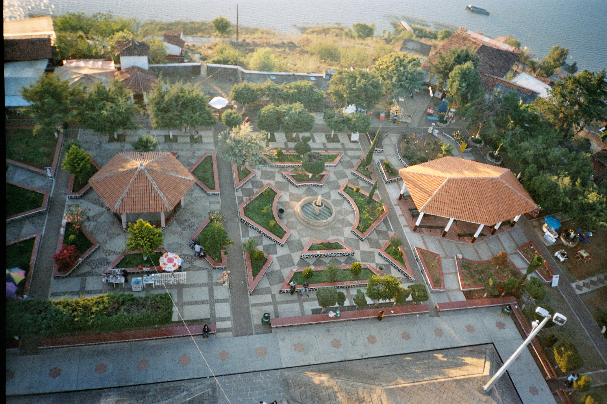 National-heroe Morelos Park in Janitzio island. Picture taken from the top of Morelos statue at the top of the island. Picture taken in the spring of 2005 by me. Note: I do not know the real name of this park, but it is the unique once it is at the top and it is rounded the Morelos Statue of the Islamd.